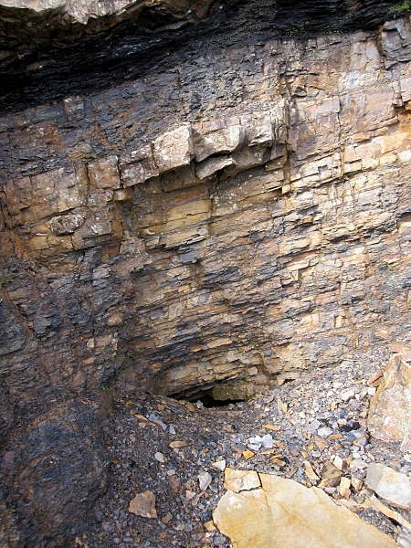 Disused Mineshaft near to Mullaghgarve and Moher, Leitrim, Ireland. Sliabh Anierin (Sliabh an Iarainn = The Mountain of the Iron) was the site of mining works in times past. This seems to be an entrance to one of the mining operations.